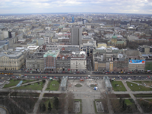 Panorama view of Warsaw, Poland.